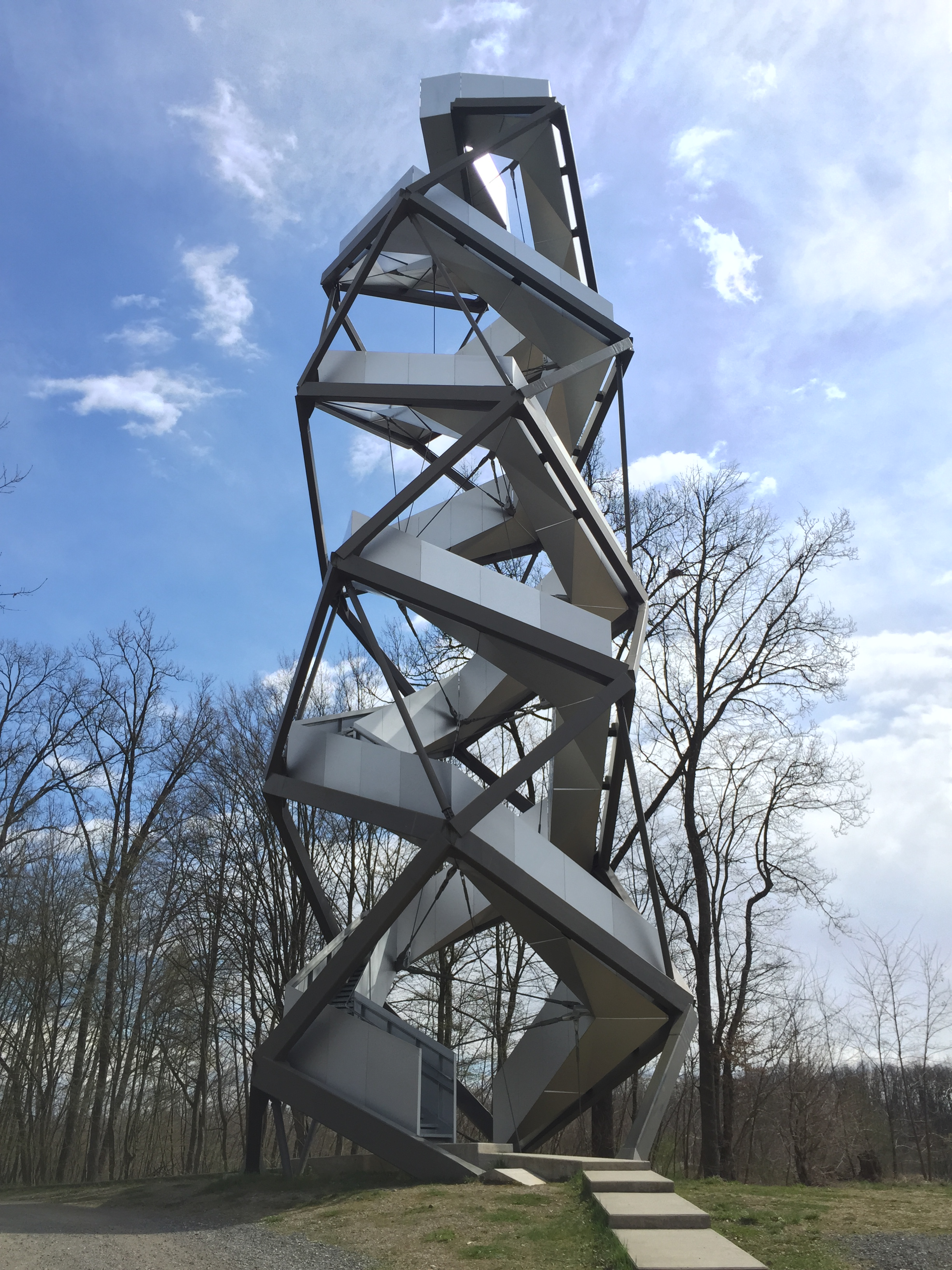 The picture shows a watch tower called "Murturm" in the styrian (austian) community of Gosdorf and is located near the river "Mur".